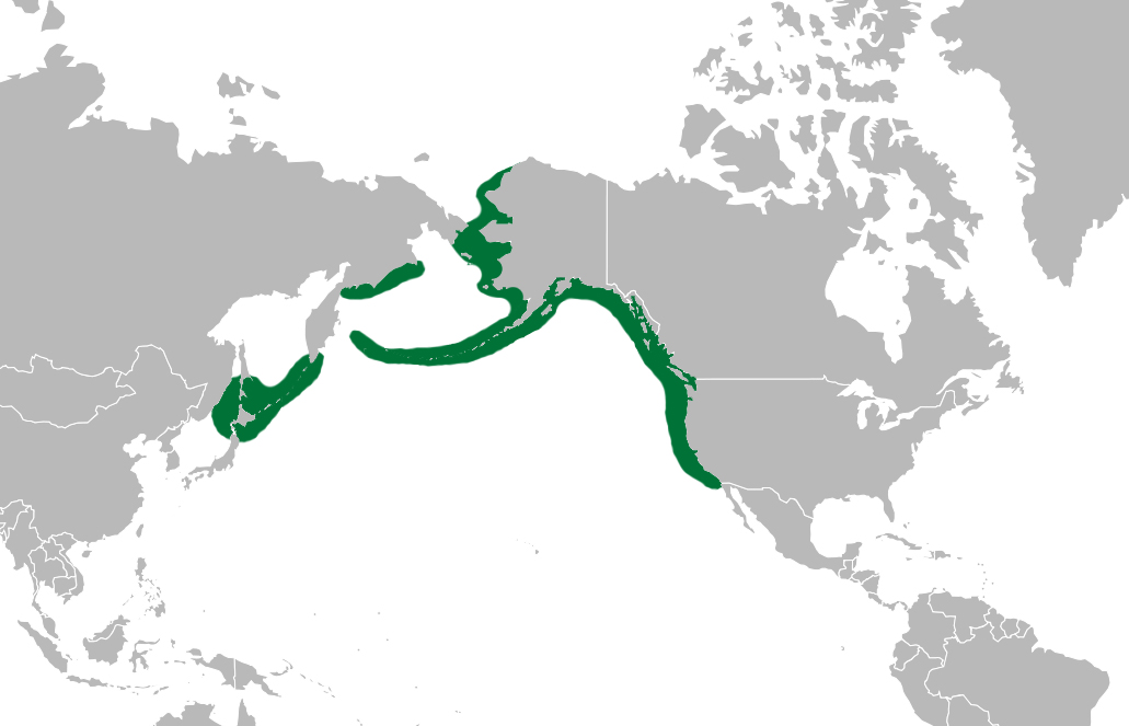 Range of Phalacrocorax pelagicus